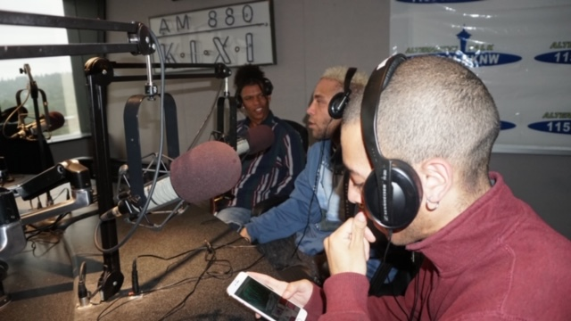 Ellis and Carter Wilson photographed during interview with HHHNAST podcast.